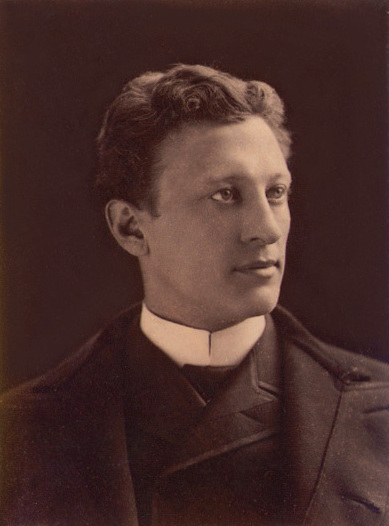 A portrait of the American stage actor, Henry E. Dixey.